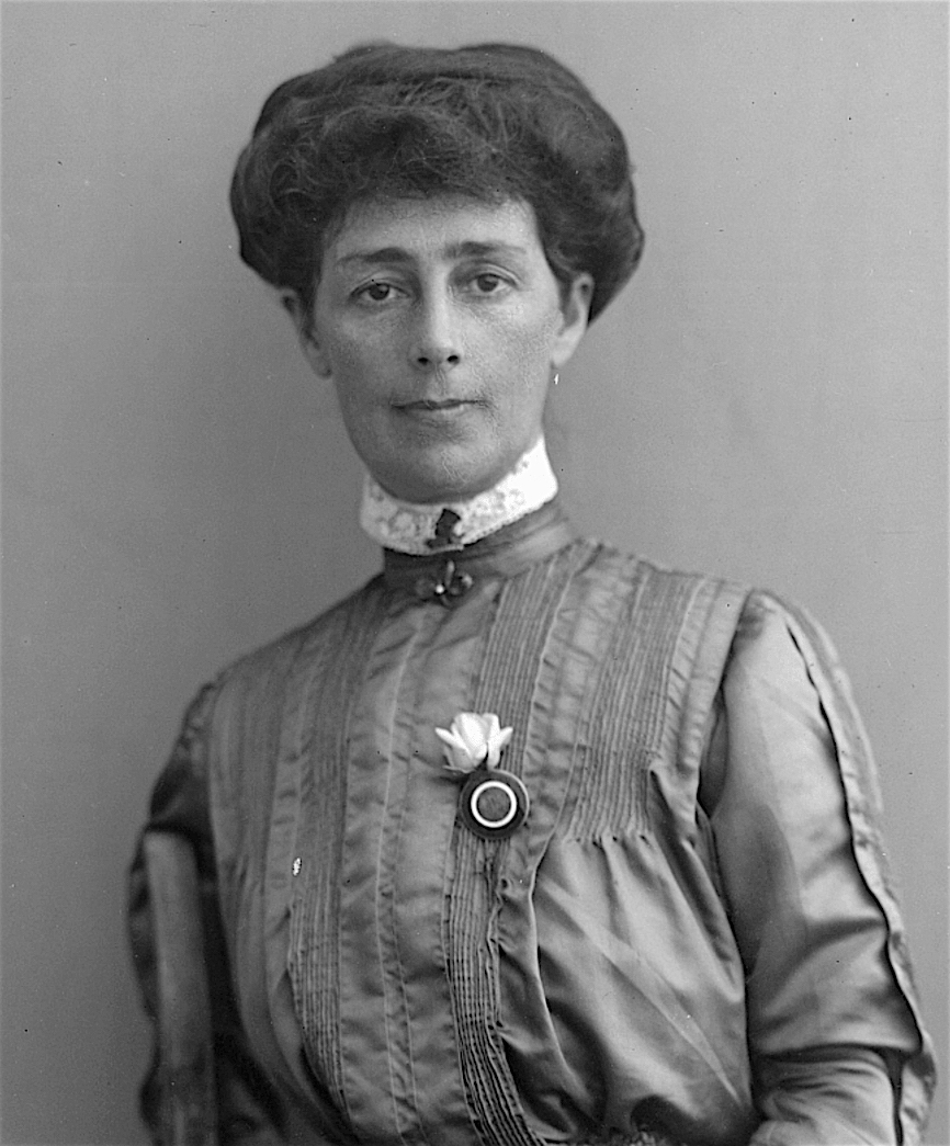 Vida Goldstein, suffragette and pacifist